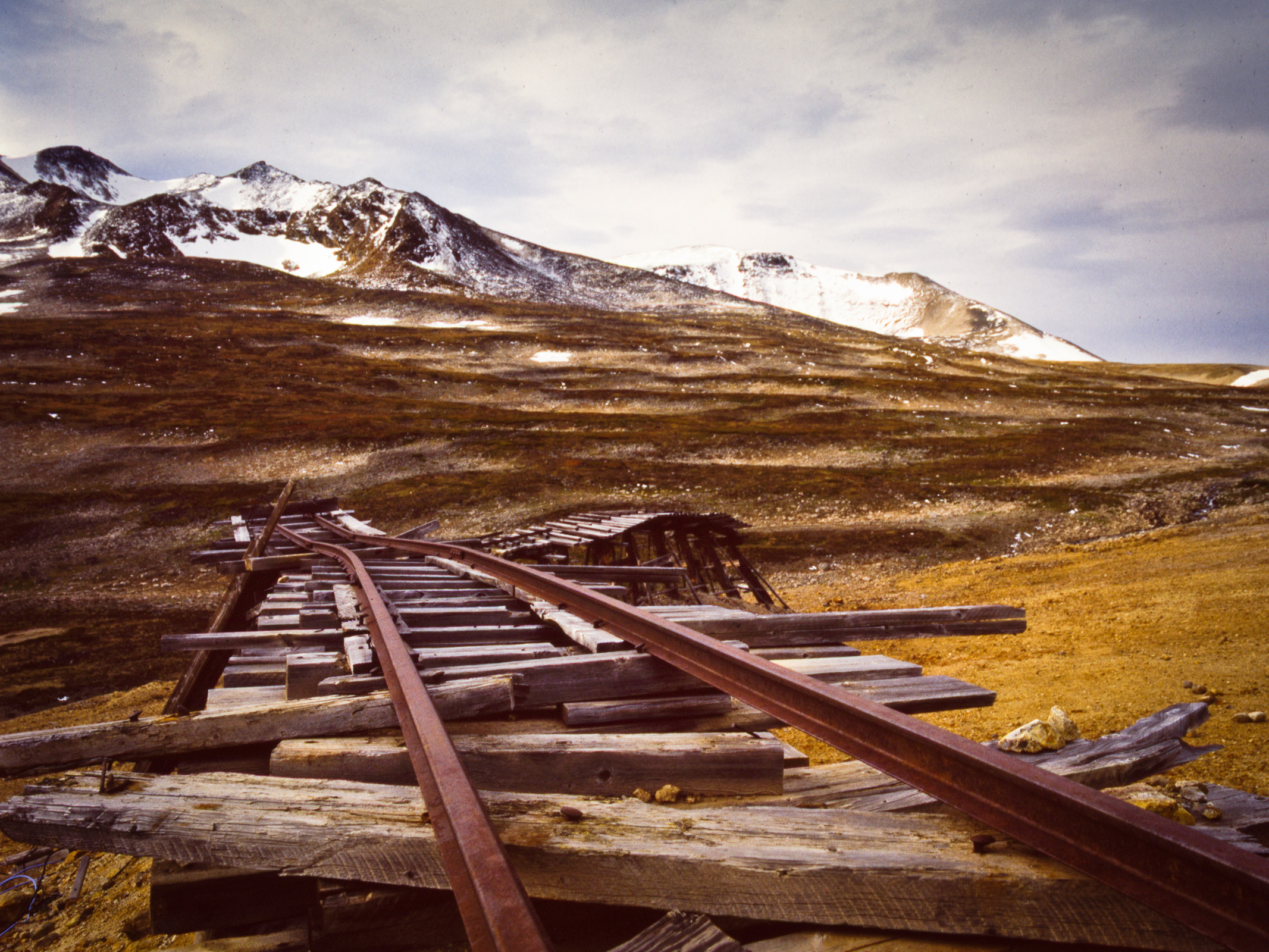 Big Thing mine near Carcross, Yukon